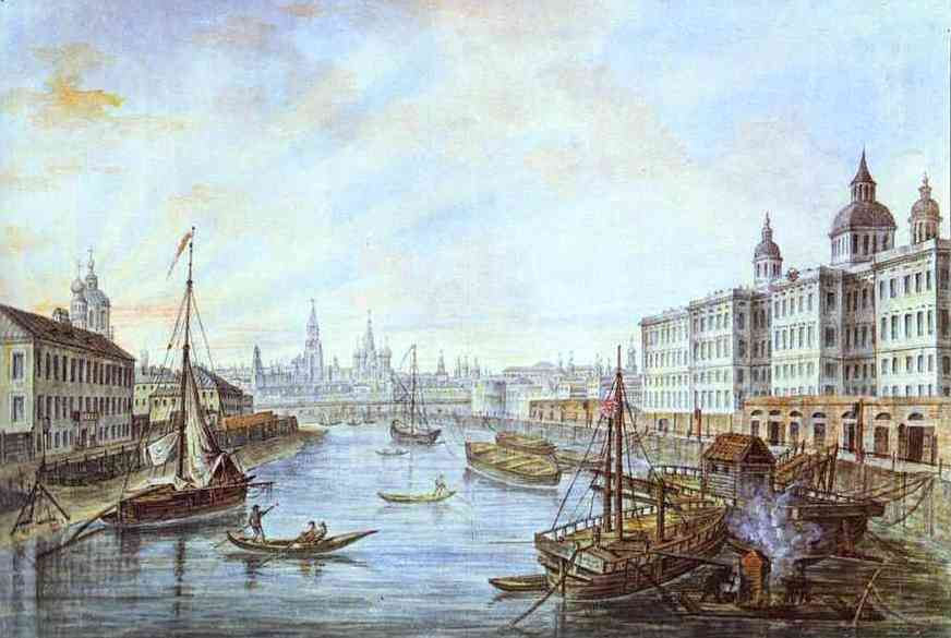 Example of work by Fedor Alekseev Painting entitled "The Foundling Hospital in Moscow" by Fedor Alekseev, dated 1800. Copyright expired.